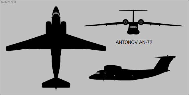 3-view silhouettes of the Antonov An-72